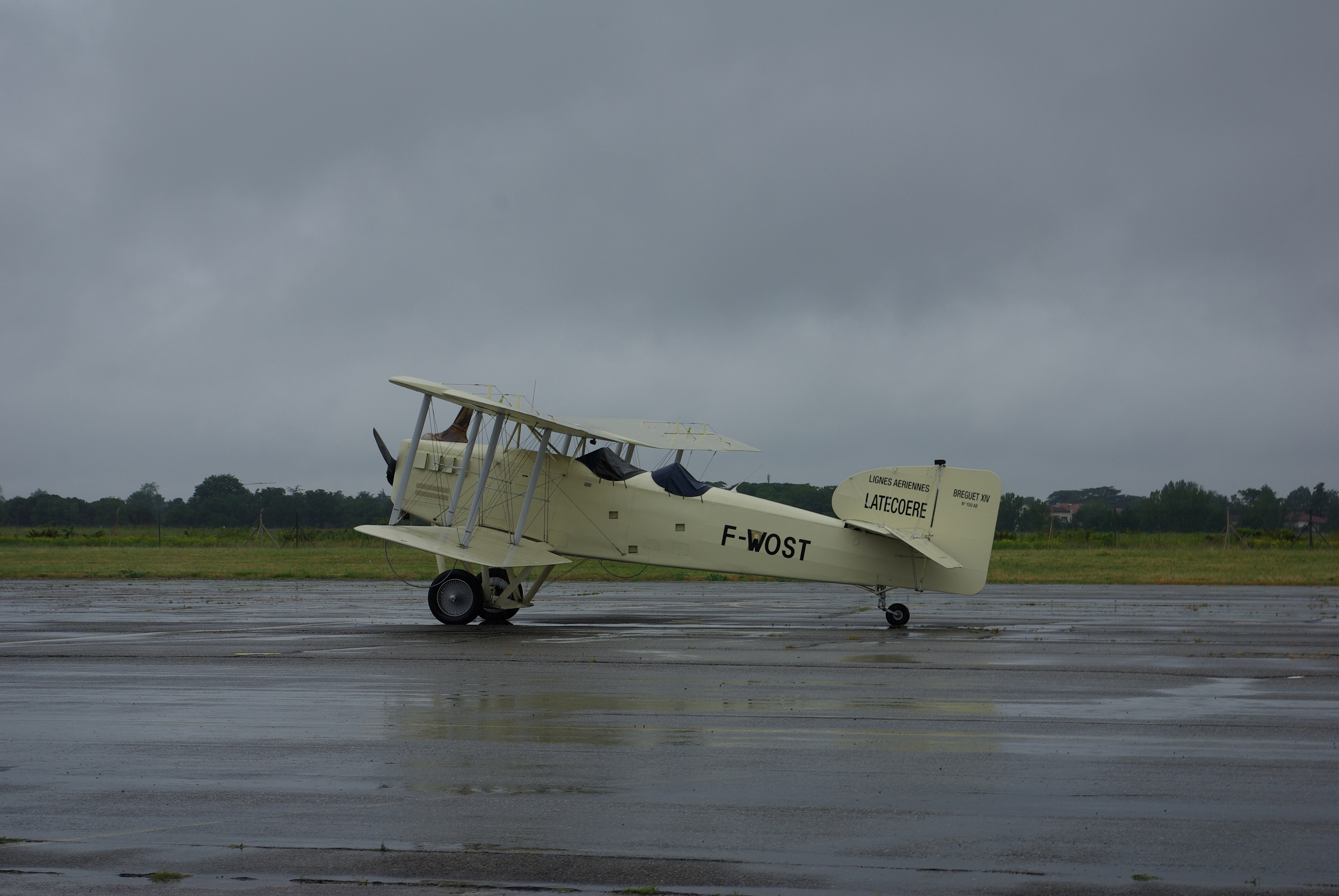 Photo of a replica of a Breguet XIV taken at AirExpo 2008 on the Fracazal Air base